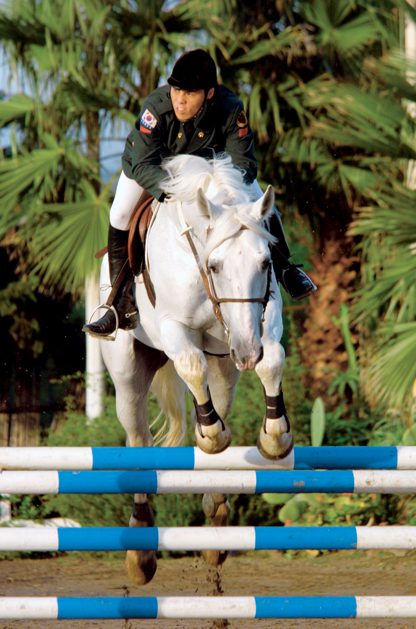 031206-N-6967M-005 Athletes competing in the 2003 Military World Games pentathlon showed off their skills in running, swimming, horseback riding, sharp shooting and fencing. The Military World Games in Catania, Italy consisted of 86 participating countries and are designed to promote "Peace through Sports.” Russia won the overall medal competition at the games with 108, including 39 gold. The United States, suffering from a lack of participation, was 18th with four medals. (All Hands, April 2004, pg. 16) Photo by Photographer's Mate 1st Class (AW) Shane T. McCoy. (RELEASED)